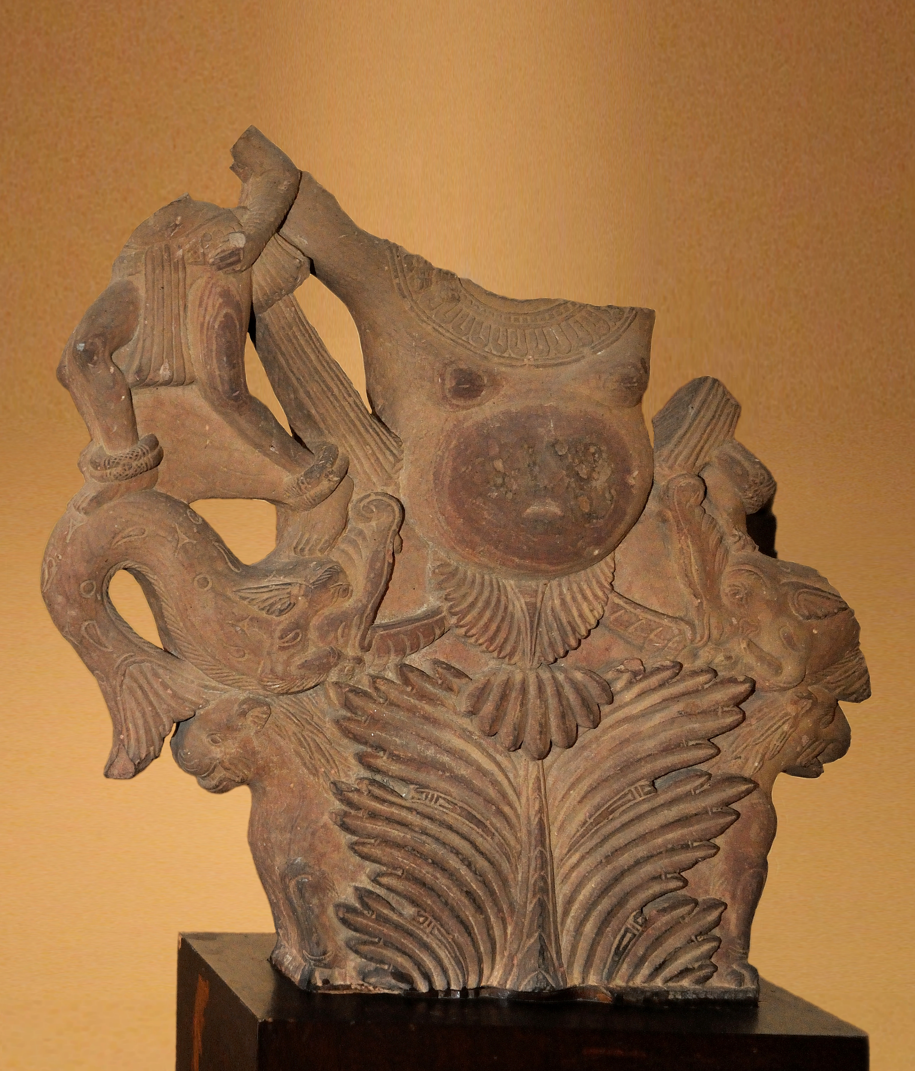 Chamunda Tila pillar capital, Mathura (background)